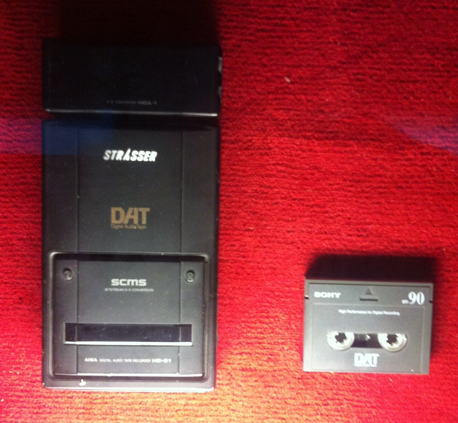 Aiwa DAT recorder and Sony DAT tape.